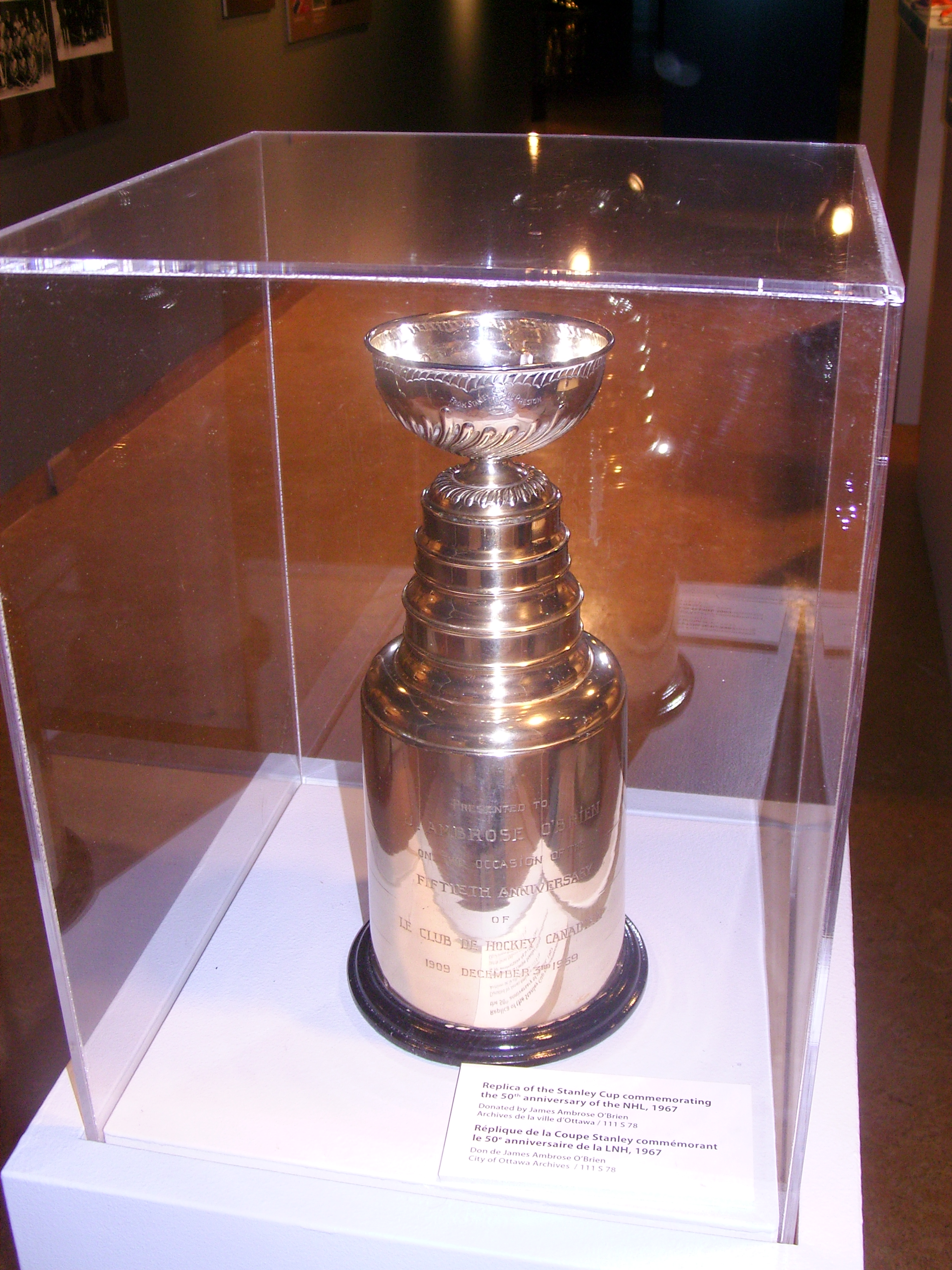 J. Ambrose O'Brien was given this replica of the Stanley Cup on the NHL's 50th anniversary in 1967 by the Montreal Canadiens. Now in the collection of the City of Ottawa archives.